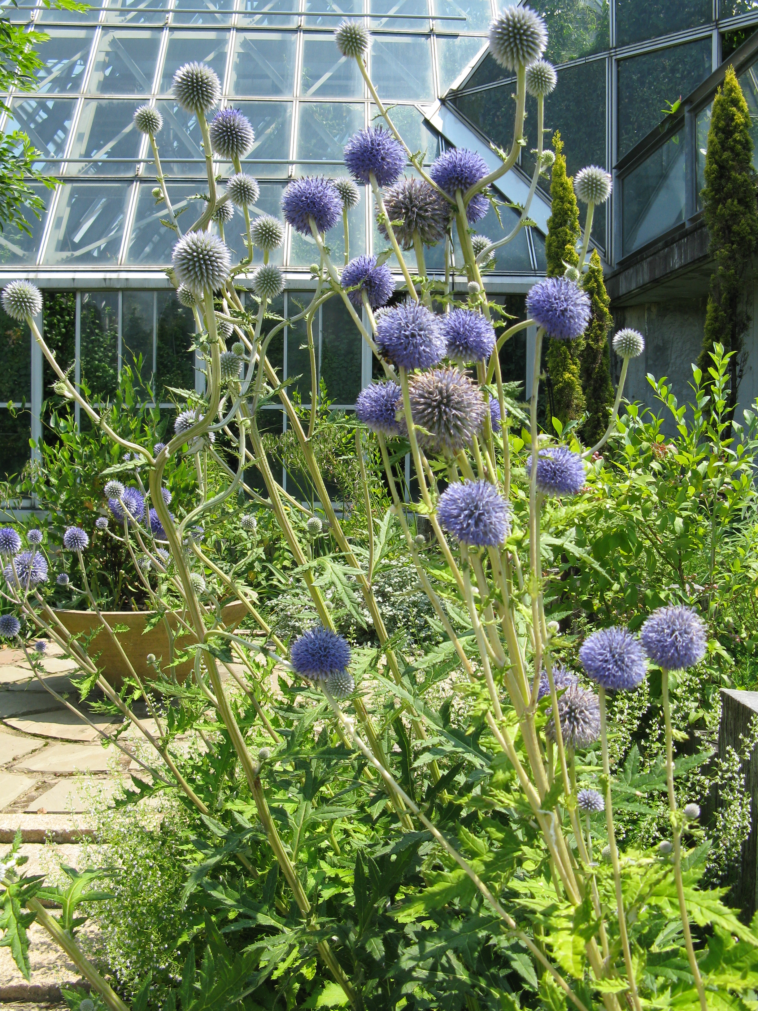 Echinops setifer